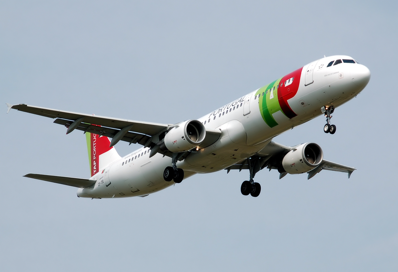 TAP Portugal Airbus A321-200 (CS-TJE) lands at London Heathrow Airport, England.